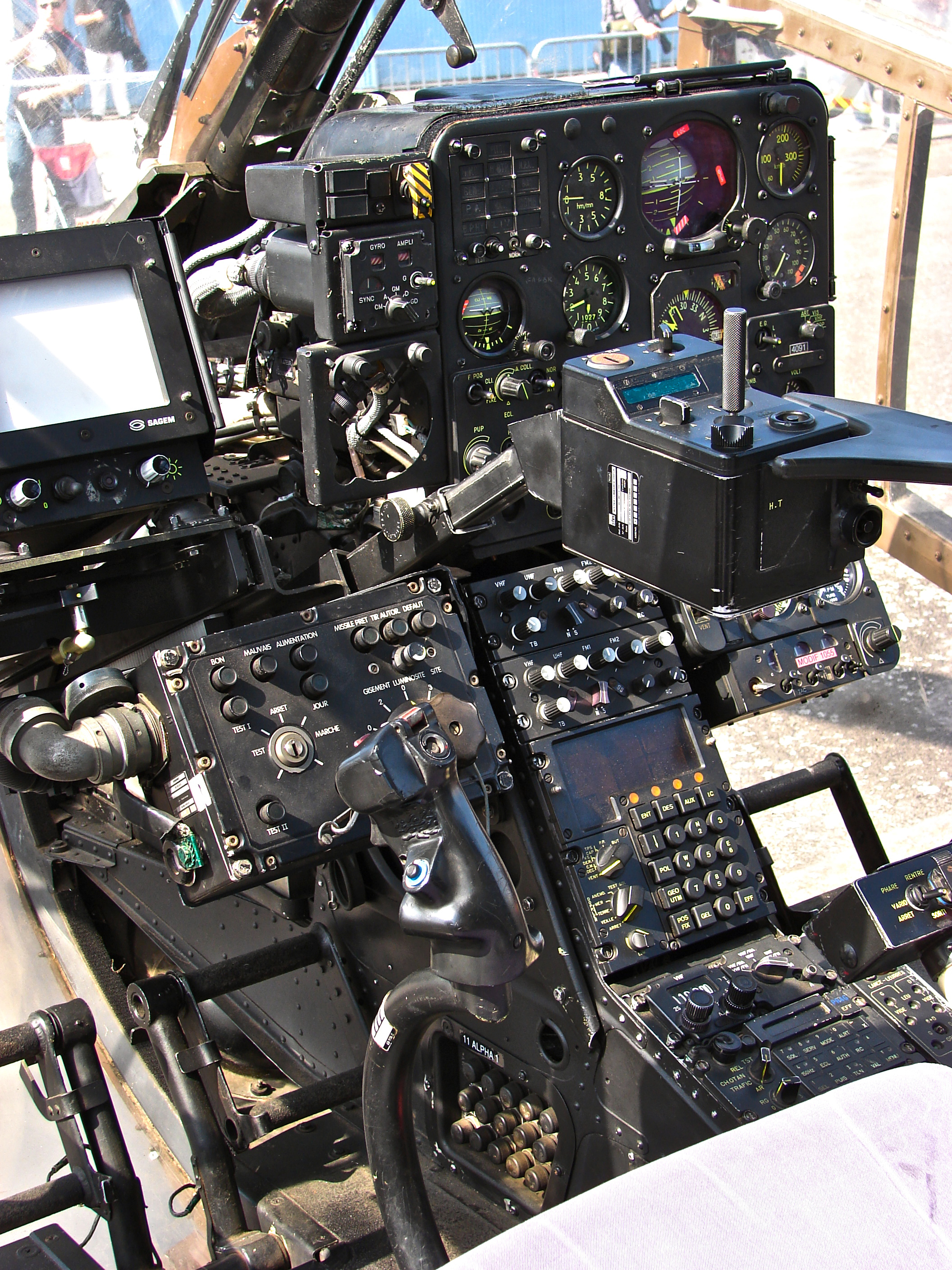 France - Army 4091 / GBK (cn 2091) Nancy - Essey (ENC / LFSN)